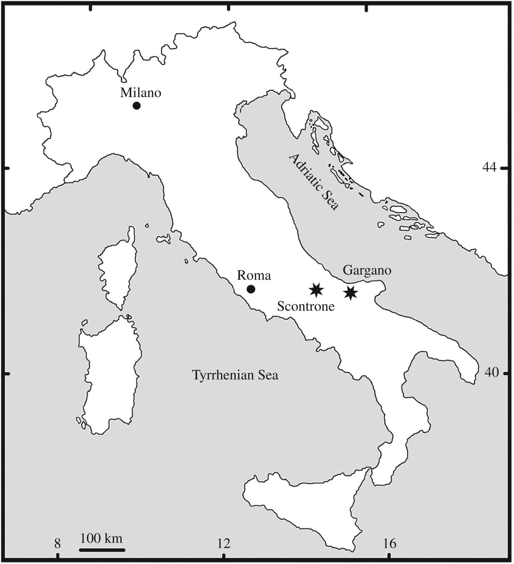 Figure 1. Map of Italy with the location of Gargano and Scontrone.